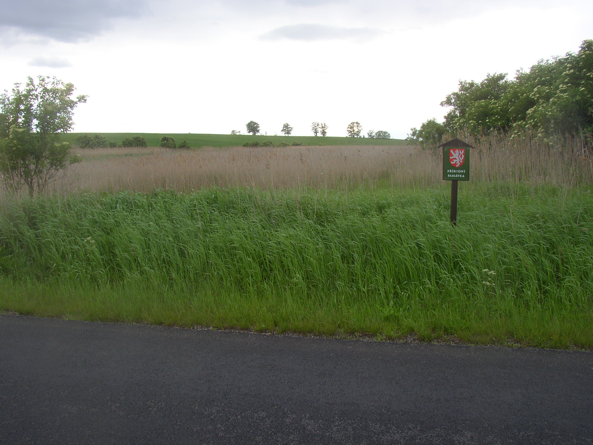 Pod Šibenicí natural monument near Velvary, Kladno District, Czech Republic.